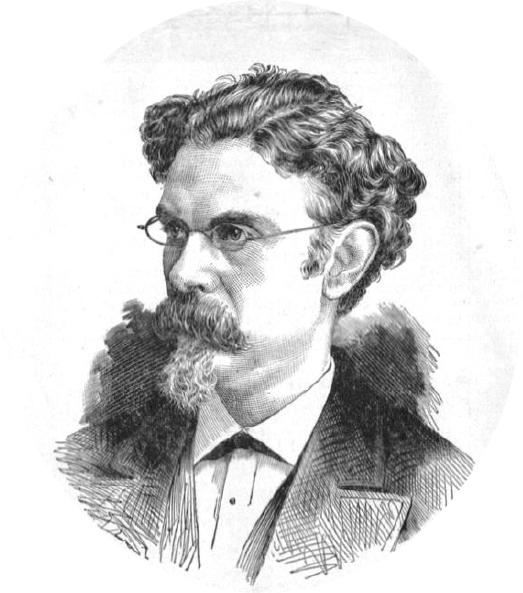 Jeroni Rosselló Ribera, in the La Llumanera de Nova York magazine of August 1879